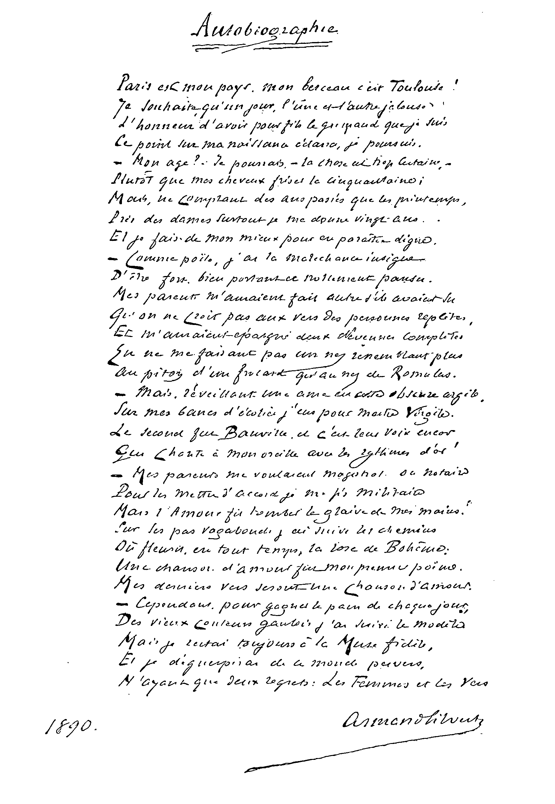 "Autobiographie" ("Autobiography") (1890) by French writer and poet Armand Silvestre (1837-1901)